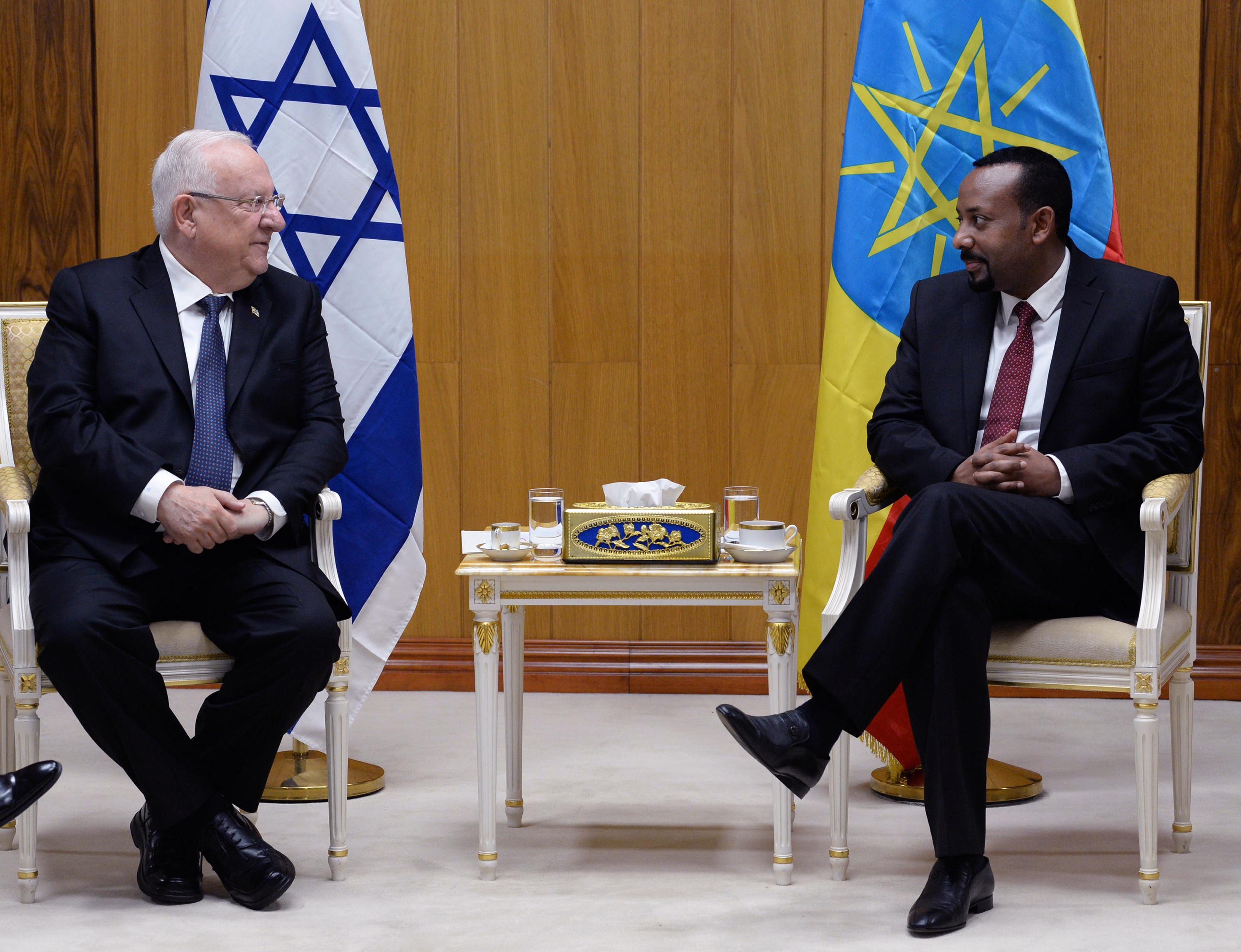 President of Israel, Reuven Rivlin, in a meeting with theEthiopian President Mulatu Teshome, the Prime Minister of Ethiopia, Abiy Ahmed and the Ethiopian Orthodox Patriarch, Abune Mathias. Wednesday, May 2, 2018. Photo Credit: Mark Neyman / GPO. Depicted people: Reuven Rivlin and Abiy Ahmed